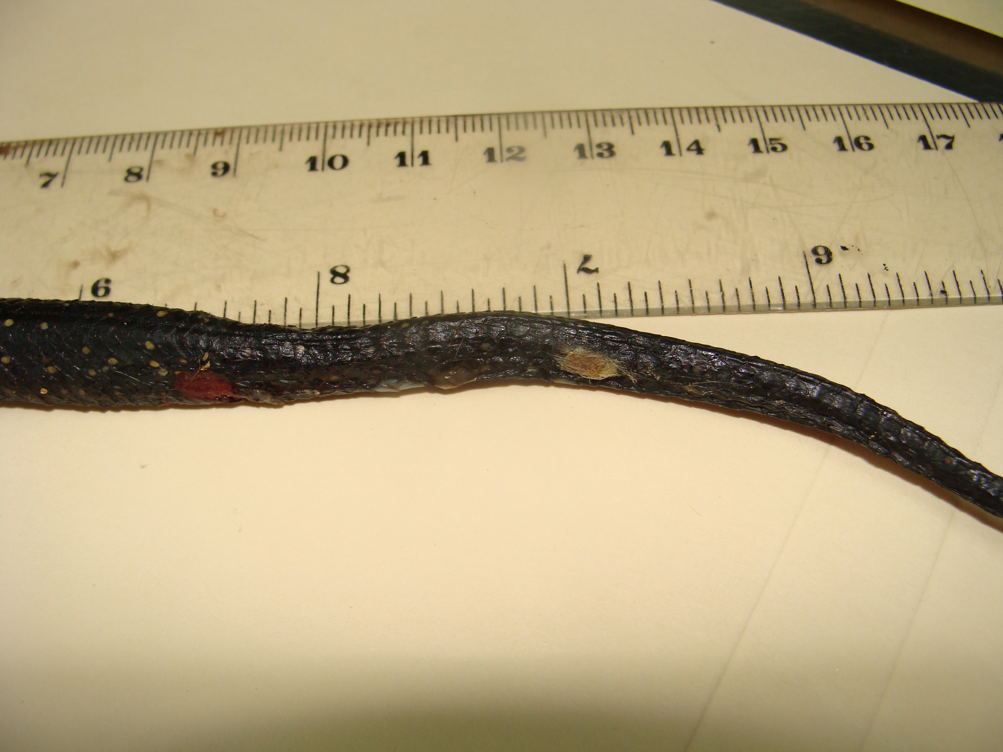 SFD lesions on Hoplocephalus bungaroides from O. ophiodiicola infection